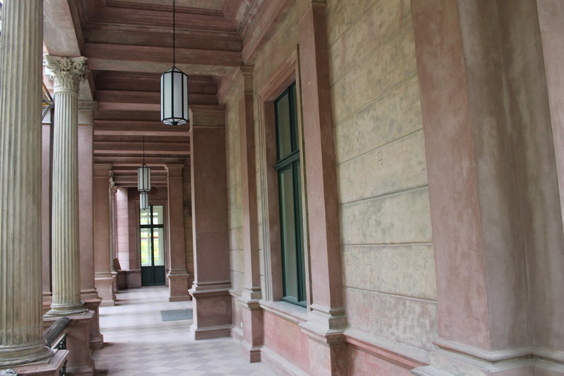 Terrace